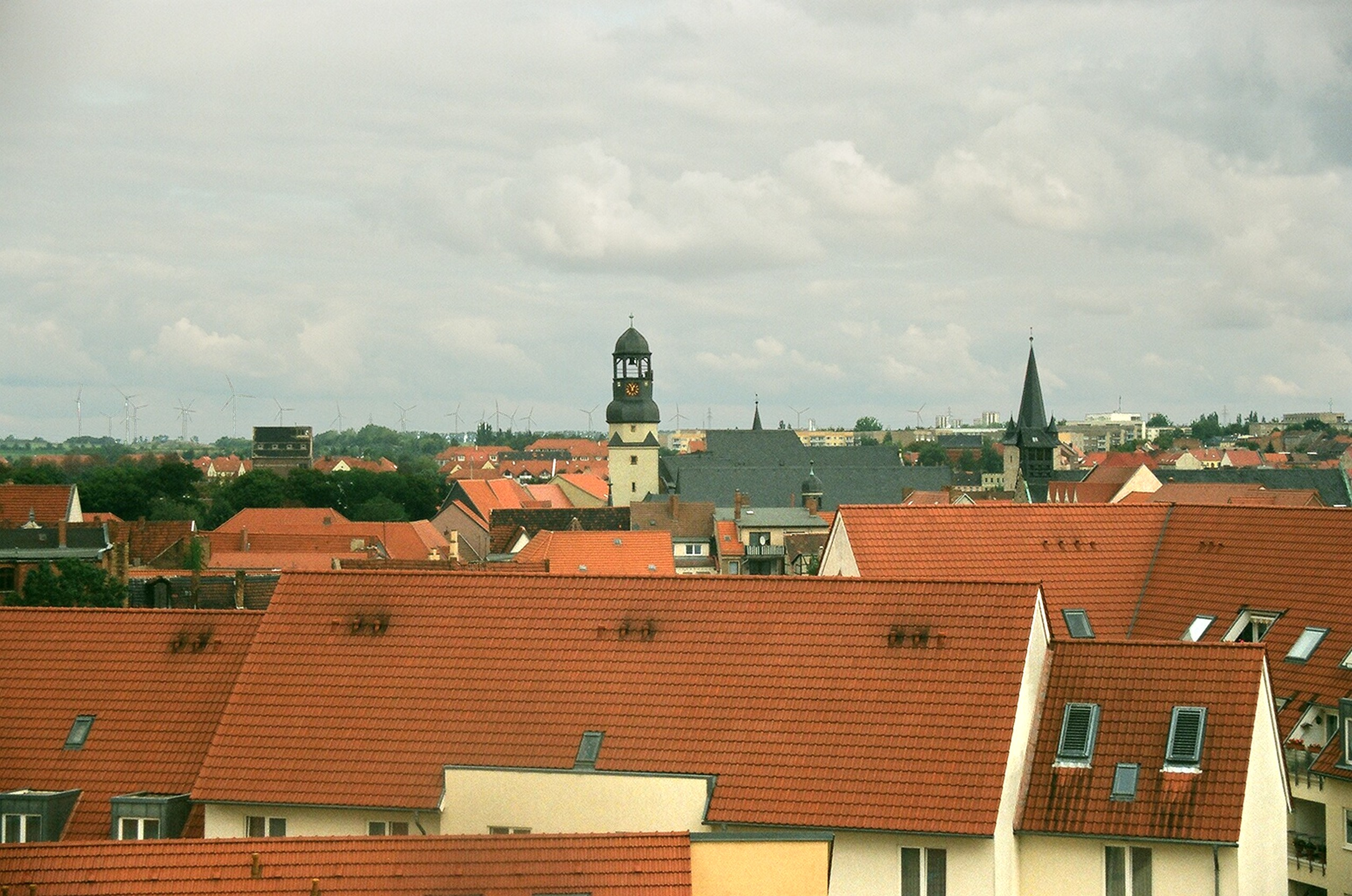 Aschersleben, view from the blunt-ended tower across the city